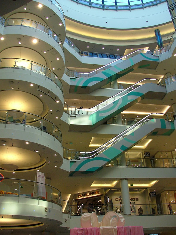 PL, Warsaw, Poland, Ochota, Centrum Handlowe Blue City